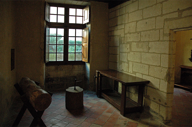 Chartreuse du Val de Bénédiction, Villeneuve-lès-Avignon, France